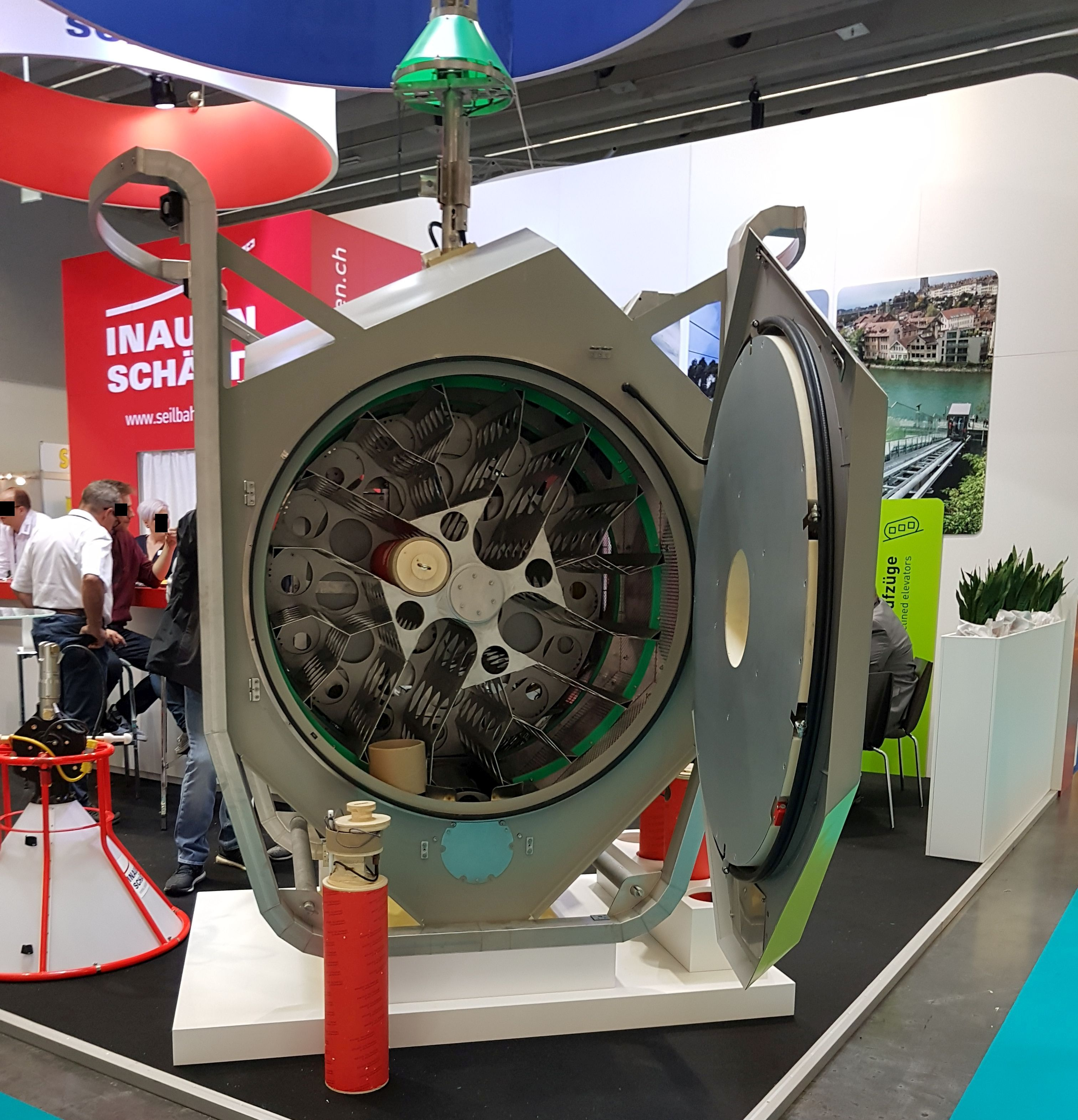 Top part of the Avalanche Tower „AVALANCHE TRIGGER LM32“ by Inauen-Schätti AG at the Interalpin, exhibition in Innsbruck in Tyrol, Austria. In the foreground, red, the explosive charges (dummies).